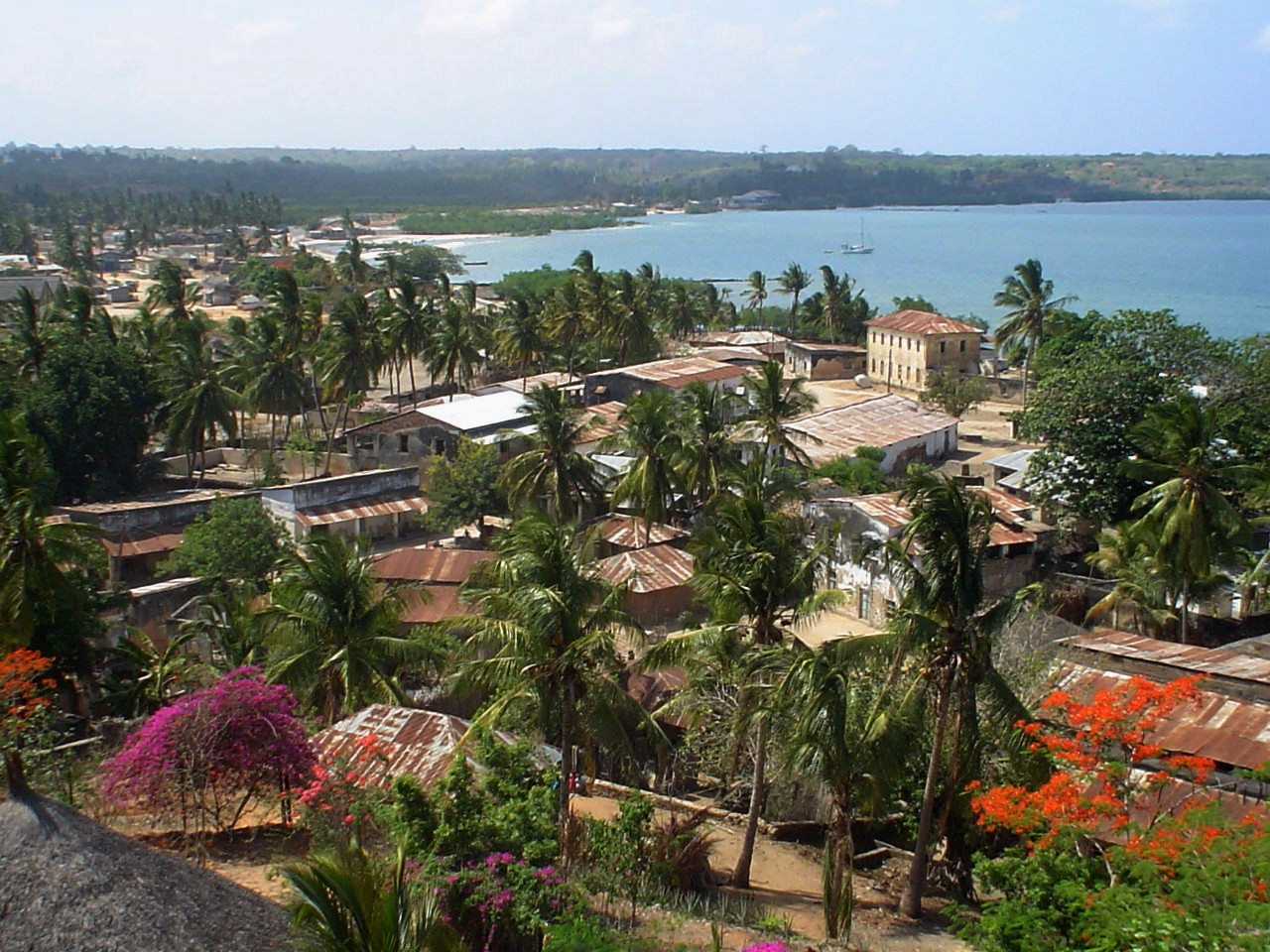 View over central Mikindani from the Old Boma tower, Tanzania